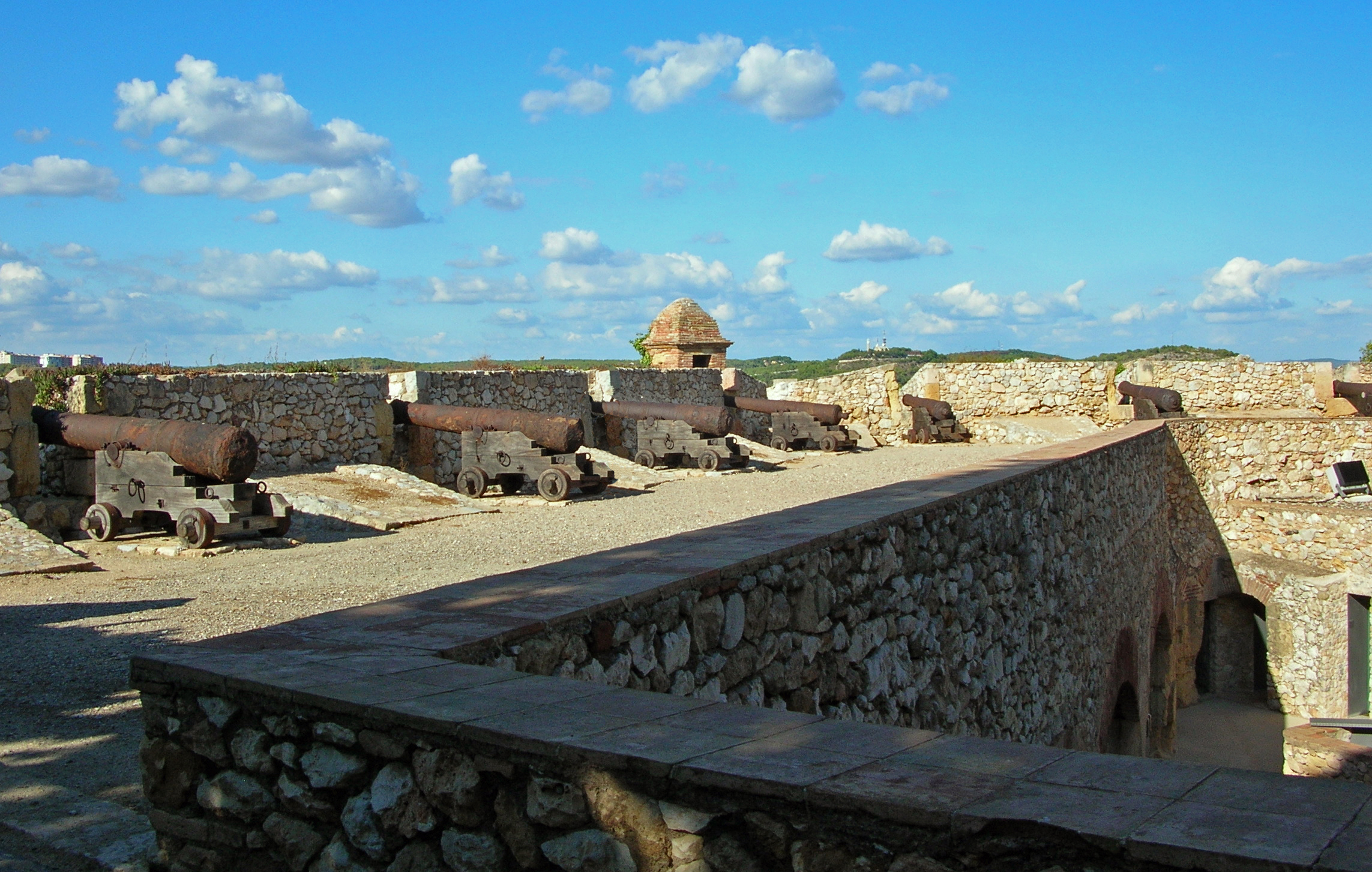 Bastion of St. Dominic on Tarragona fortifications, Spain